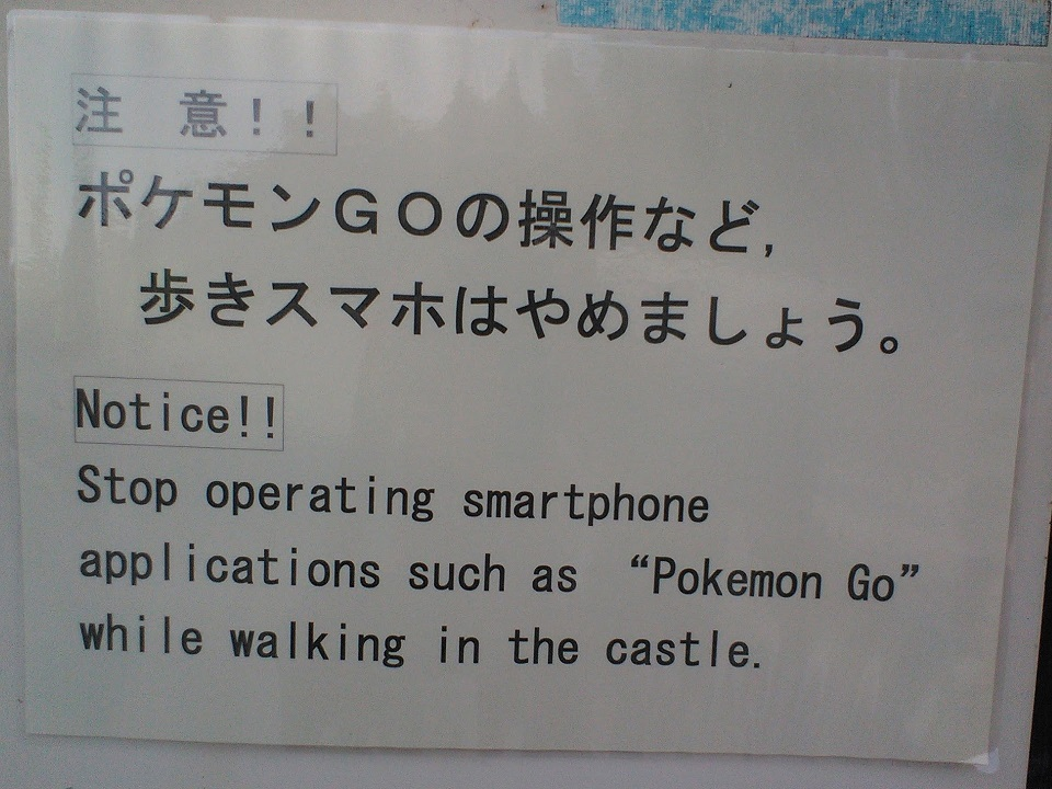 I actually saw the exact same sign in several castles around Japan, and took a picture of it. Self-explanatory.